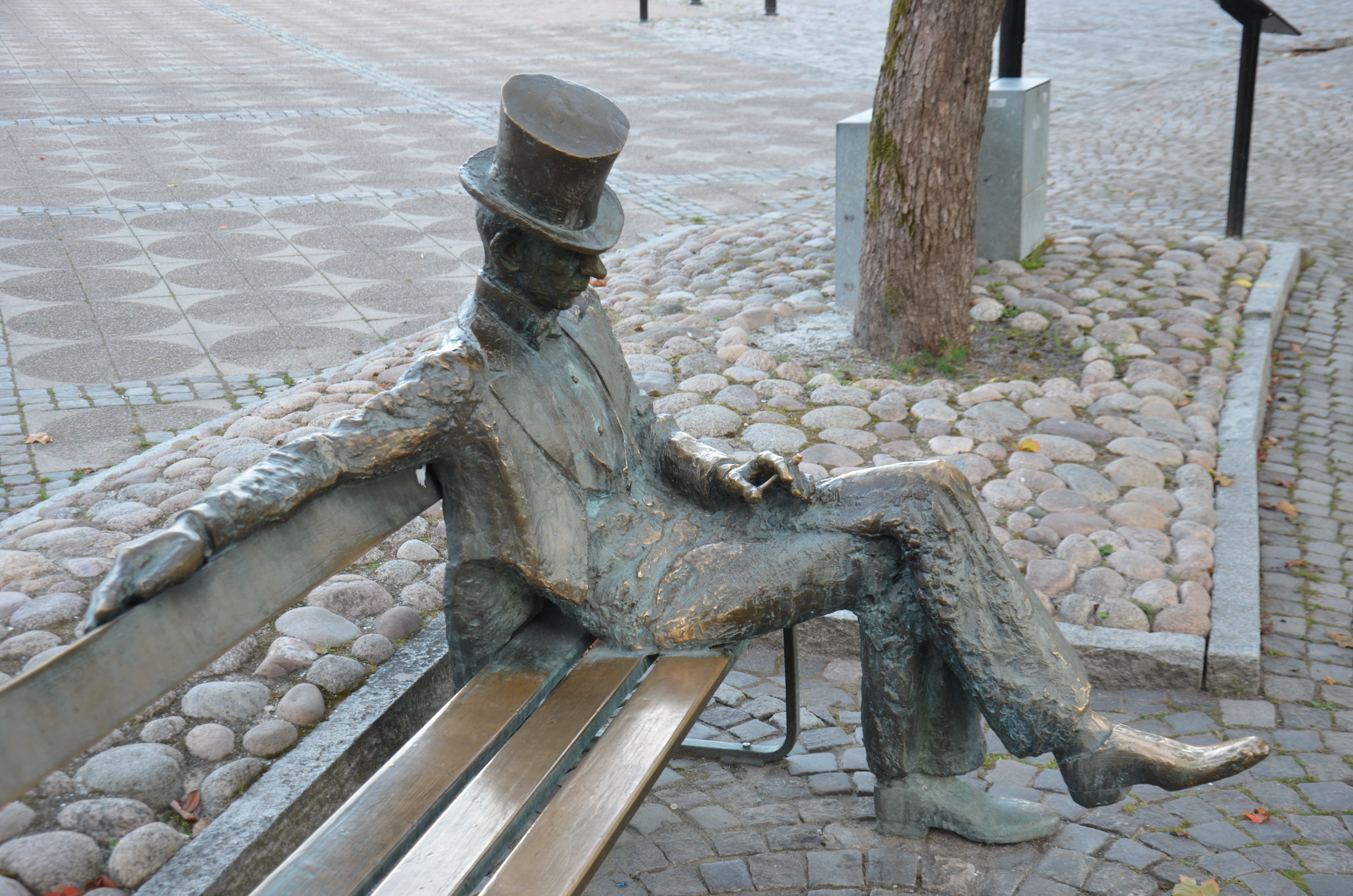 K G Bejemarks staty över Nils Ferlin på Stora Torget i Filipstad